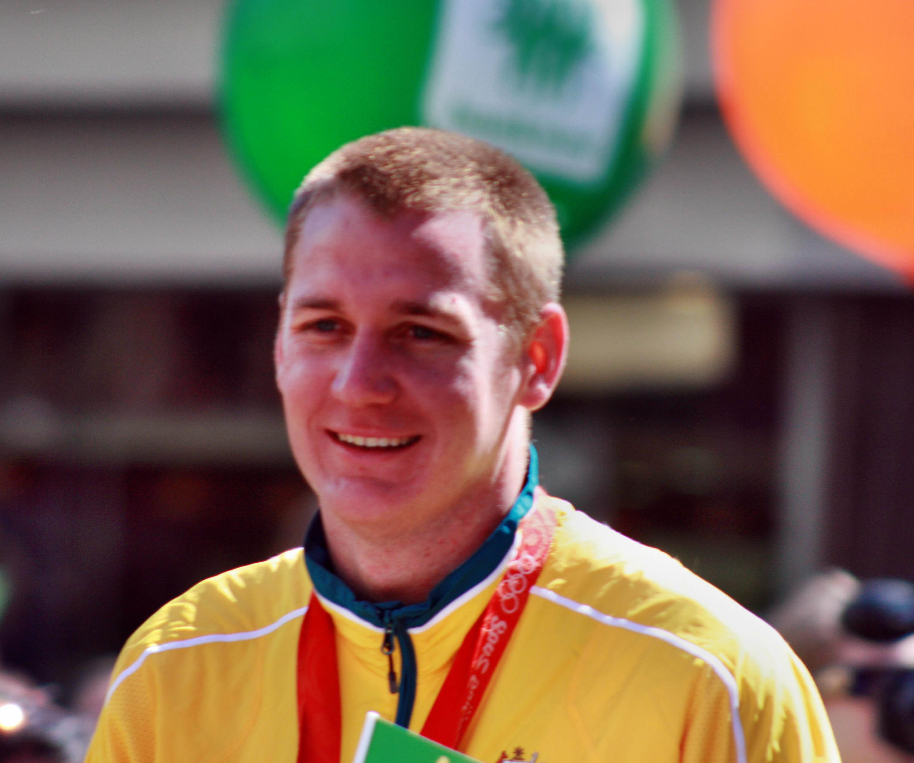 Melbourne homecoming parade for 2008 Olympic Team. Brenton Rickard